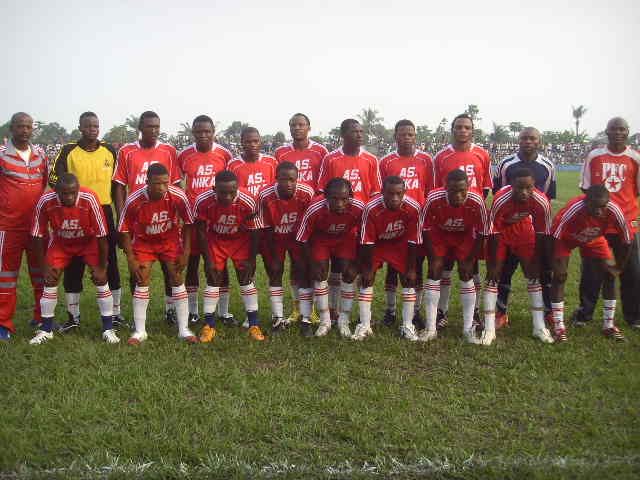 AS Nika football/soccer team from Kisangani